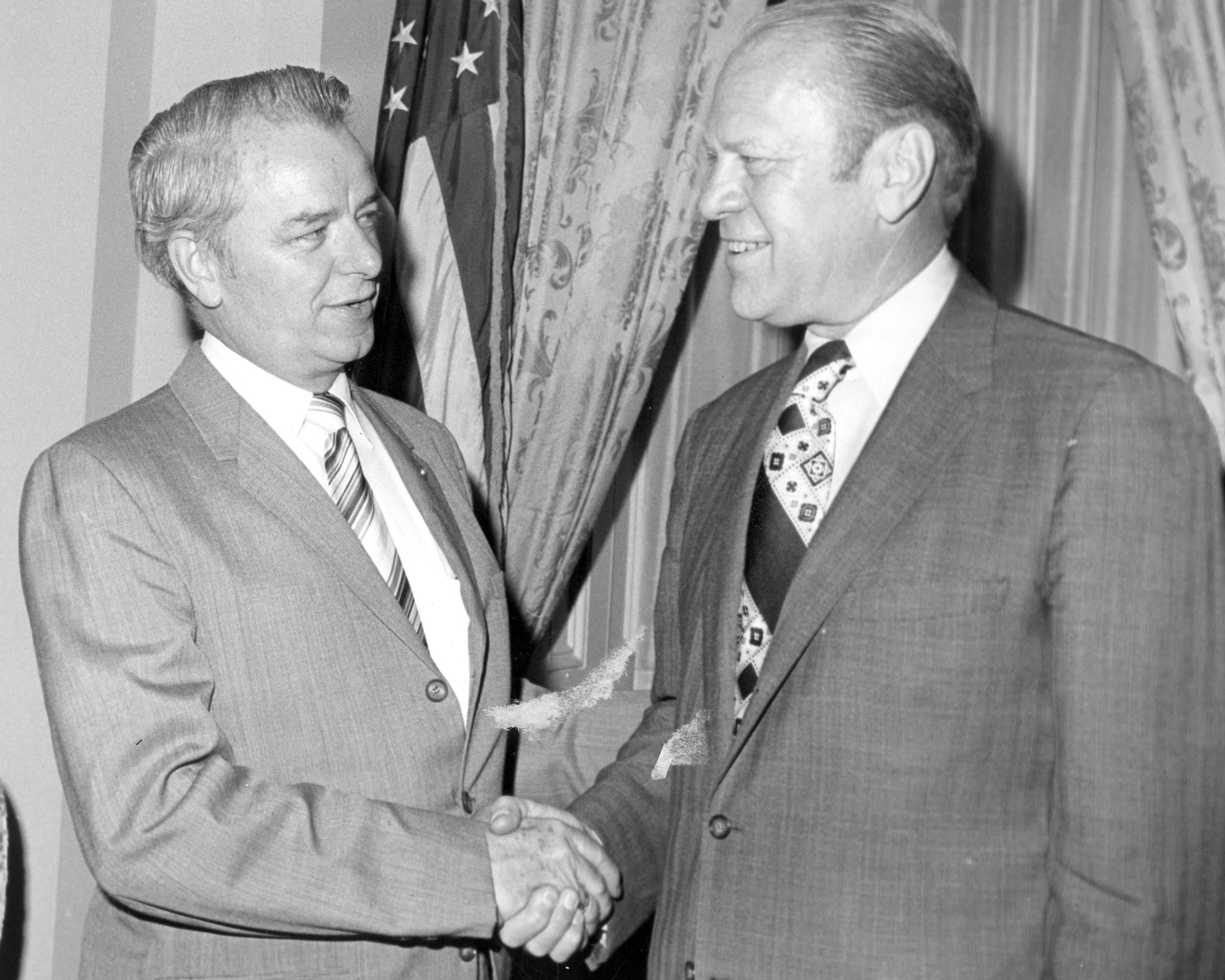 U.S. Senator Robert Byrd meeting with President Gerald Ford.